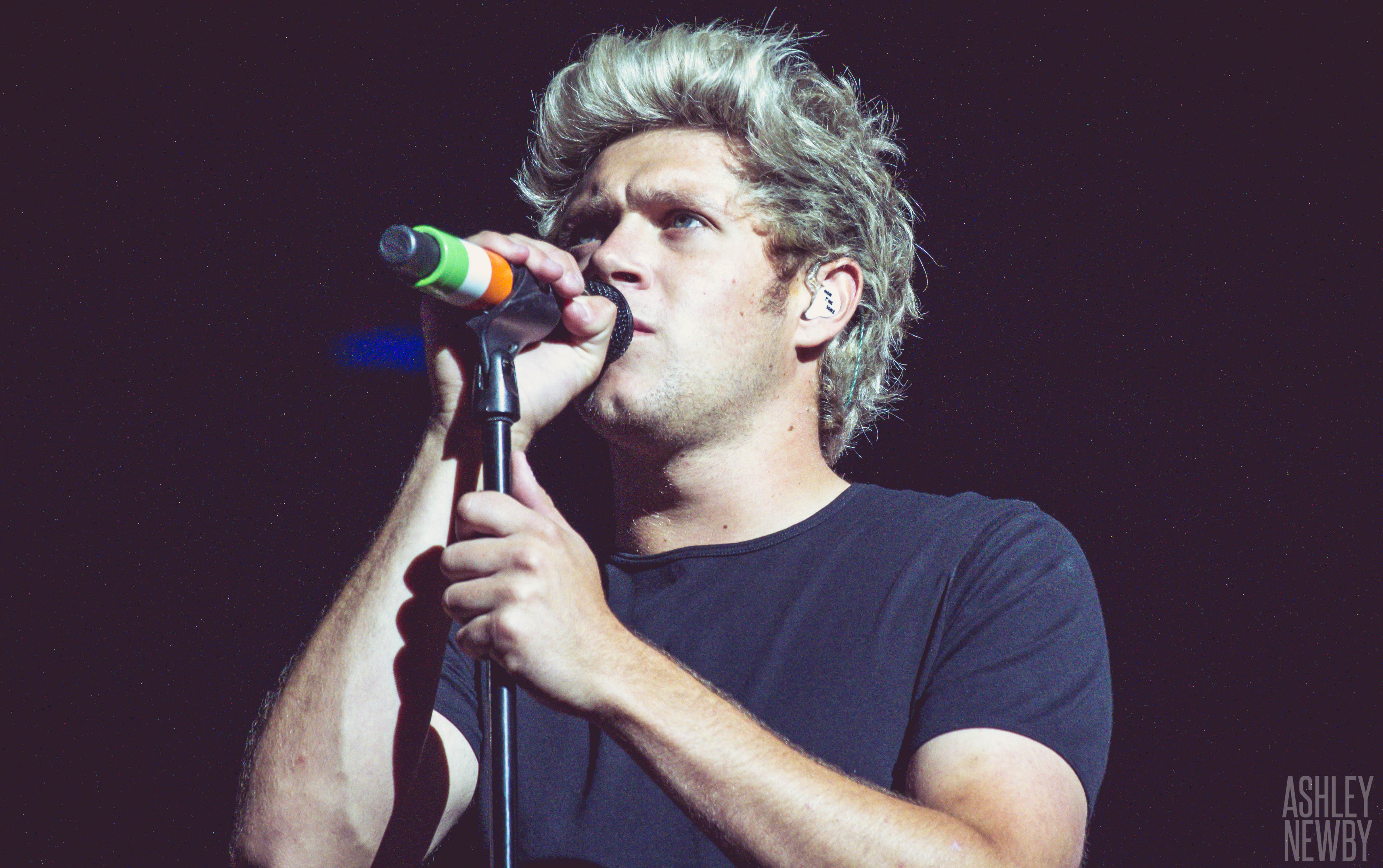 One Direction August 23, 2015 Soldier Field Chicago, IL